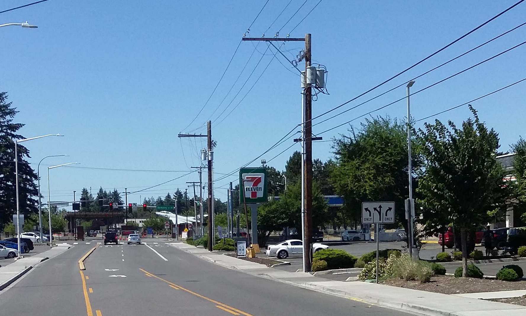 Looking southwest down Union Avenue towards Berkeley Street and commercial vehicle gate of Camp Murray